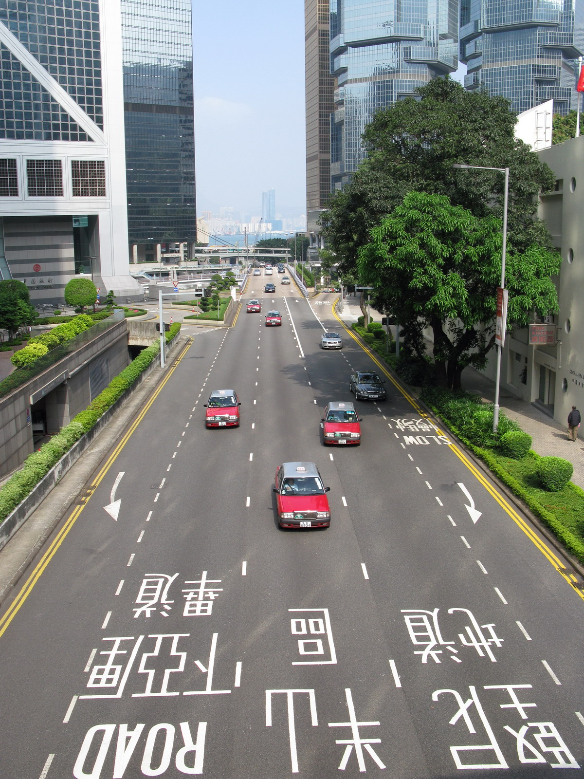 紅棉路 Cotton Tree Drive